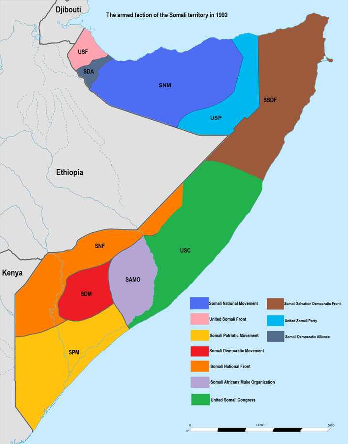 The armed faction of the Somali territory in 1992